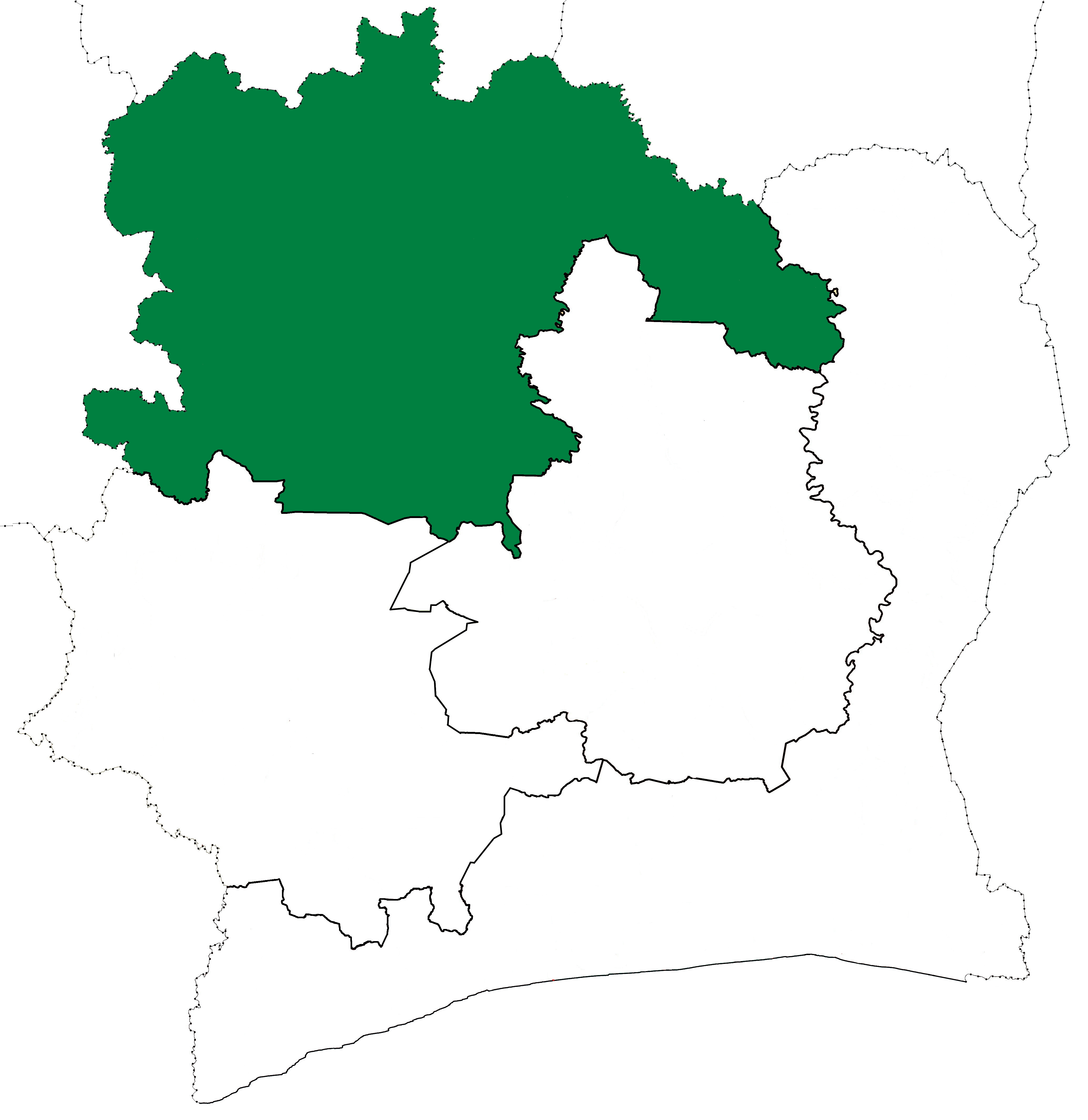 Locator map for Nord Department in Côte d'Ivoire (1961–63).